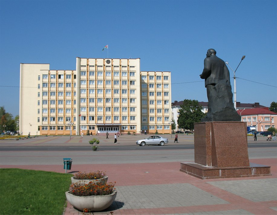 Administrative building in Slutsk city, Minsk region, Belarus